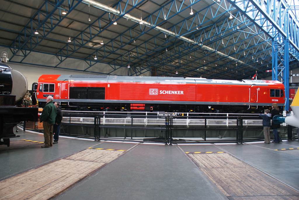 The new livery for EWS, who are taken over by DB Schenker. NRM, York 24th Jan 2009.